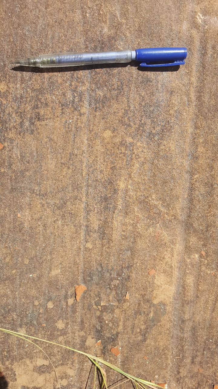 Estrias no pavimento, Grupo Santa Fé.